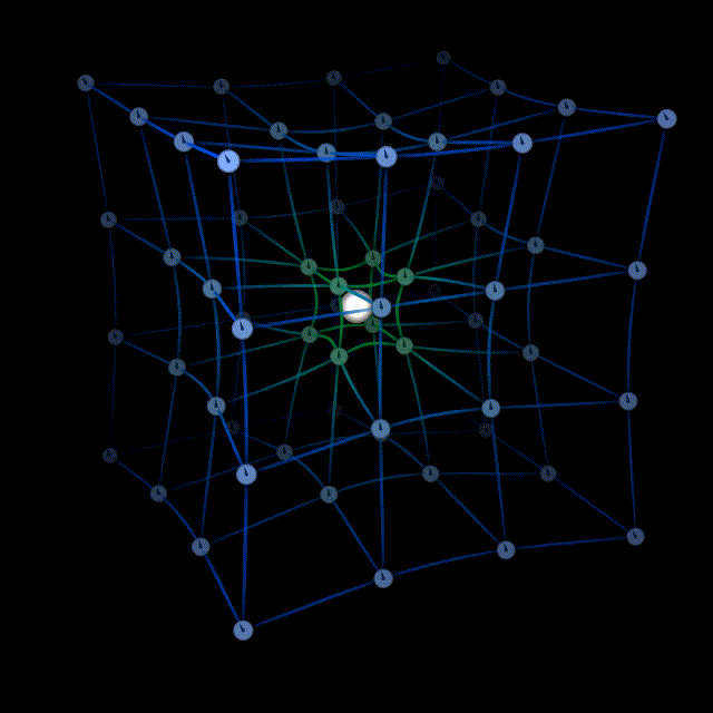 Single frame from a video created by Lucas Vieira Barbosa